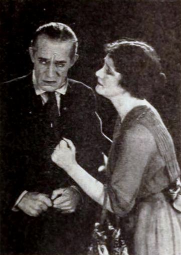 Still from the American crime drama The Invisible Power (1921), actors not identified in caption, on page 87 of the October 1, 1921 Exhibitors Herald.